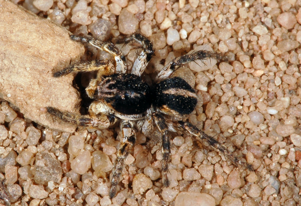 Aelurillus v-insignitus, Kelsterbach close to Frankfurt/Main, Germany